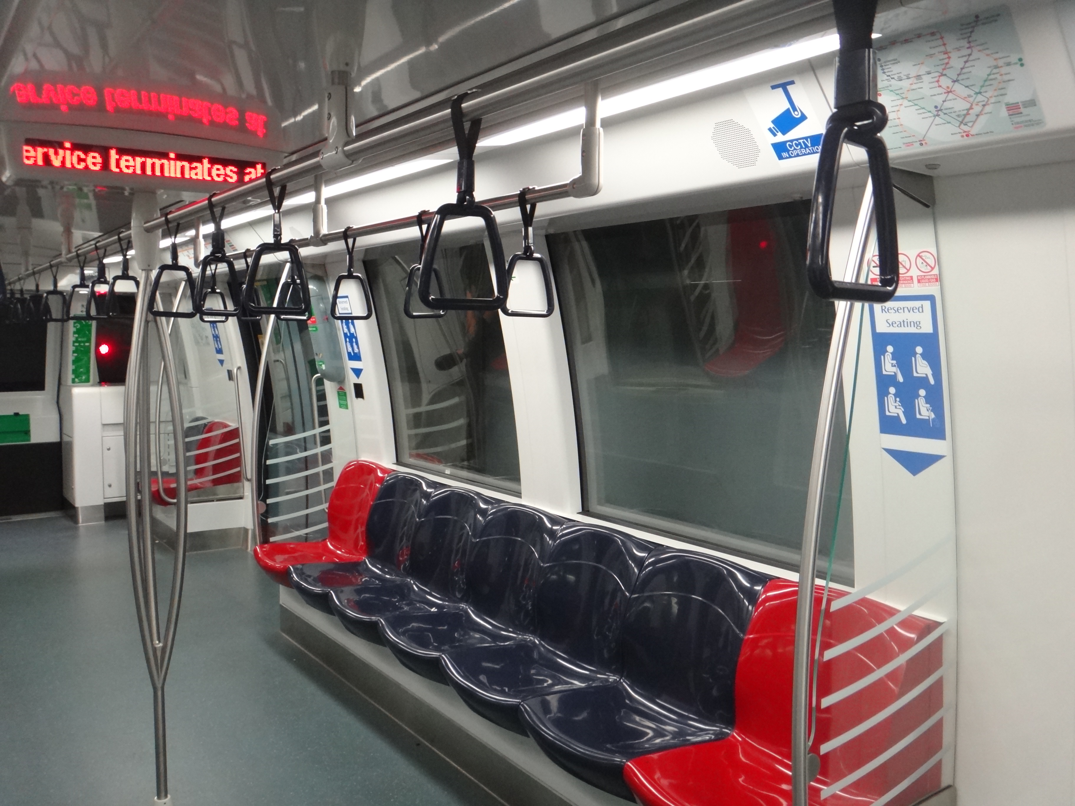 Interior view of a Shanghai Electric-Alstom Metropolis C830C train on the Circle MRT Line, Singapore